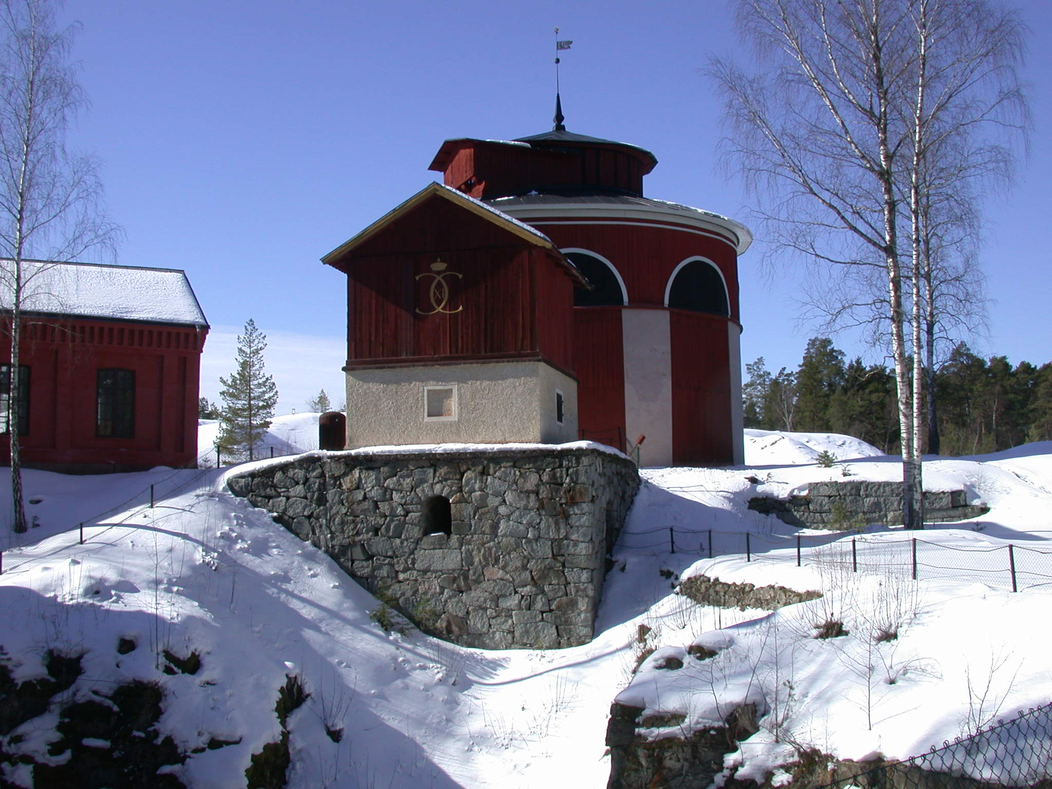 The shaft of His Majesty Carl XI, Sala silver mine, Sala, Sweden. Photo: Riggwelter, March 26, 2006. (Picture-name says IX but actually it's XI as it says in the picture)